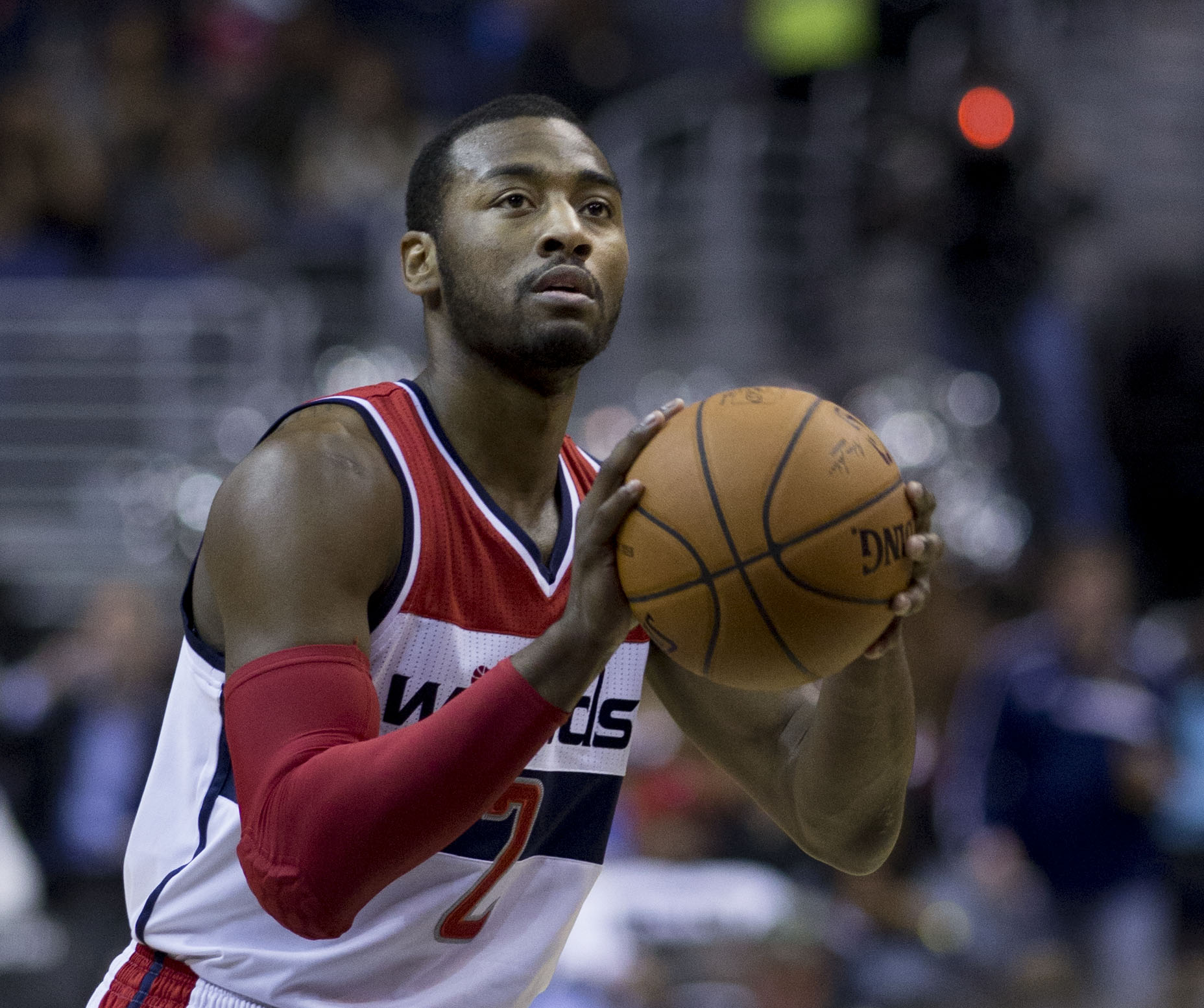 Thunder at Wizards 2/1/14